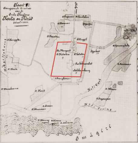 A map of Karta Palace and Plered (Pleret) in Mataram (today Indonesia), drawn by Gerret Pieter Rouffaer based on his visit in 1889. The red box, indicating the wall around the Plered kraton was presumably added later.